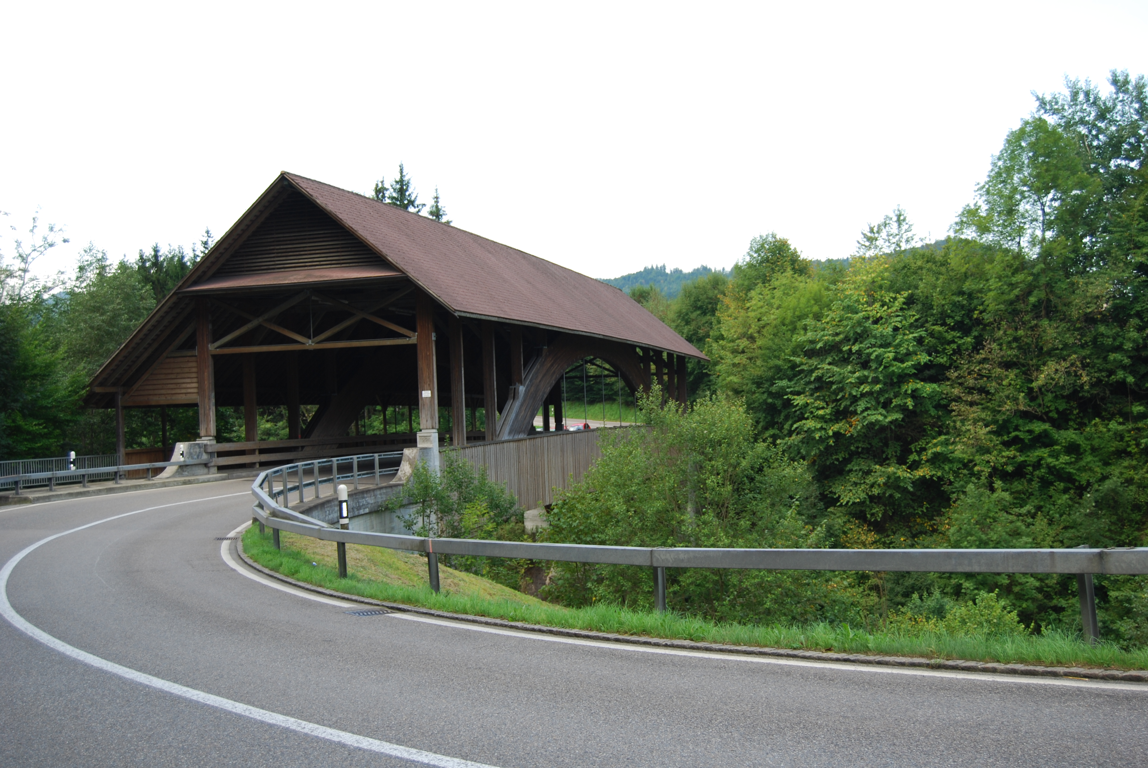 Wooden Bridge over Thur between Bütschwil and Ganterschwil, canton of St. Gallen, Switzerland